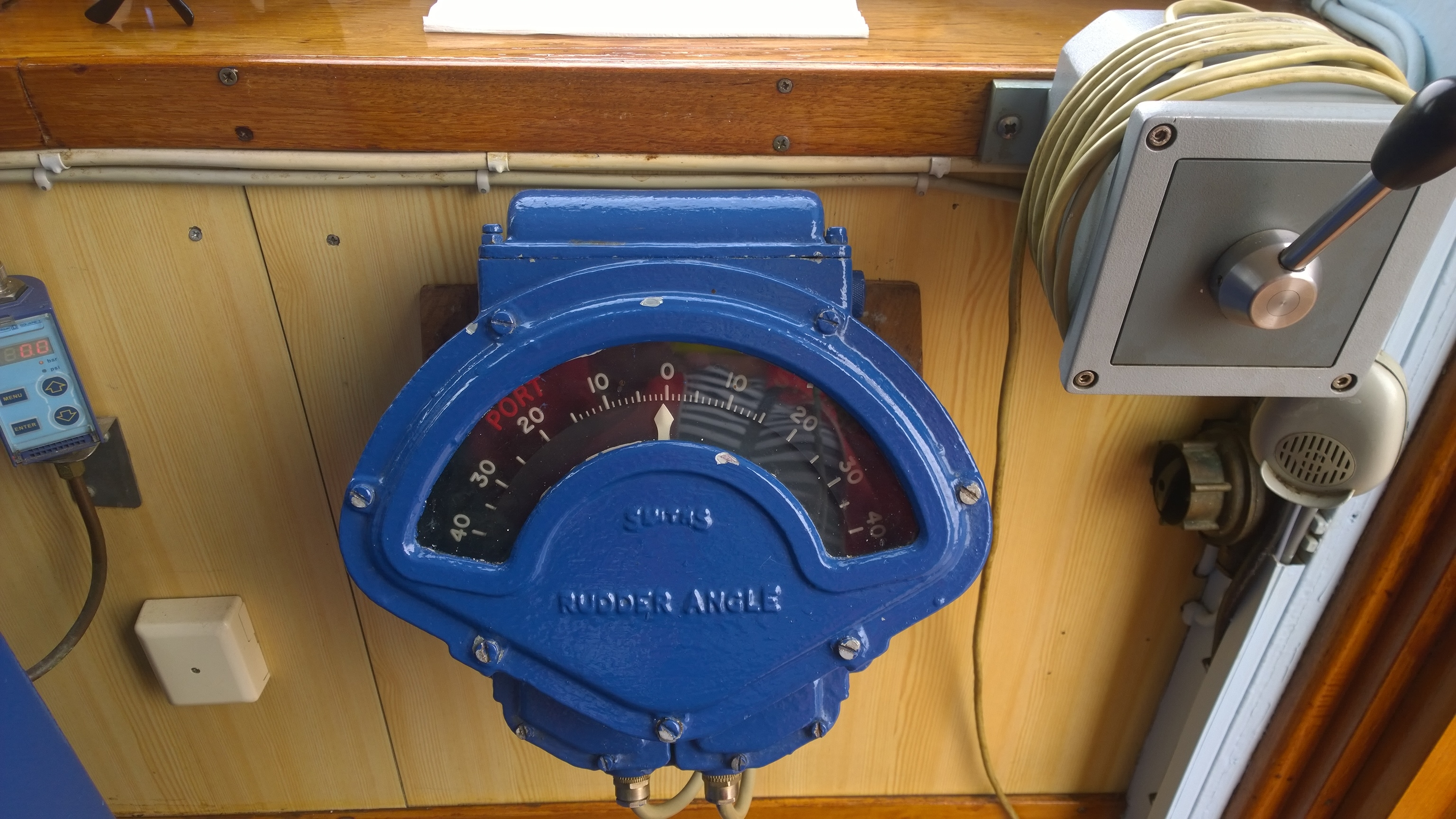 Rudder angle indicator of the Norwegian passenger ship Nordstjernen 1956